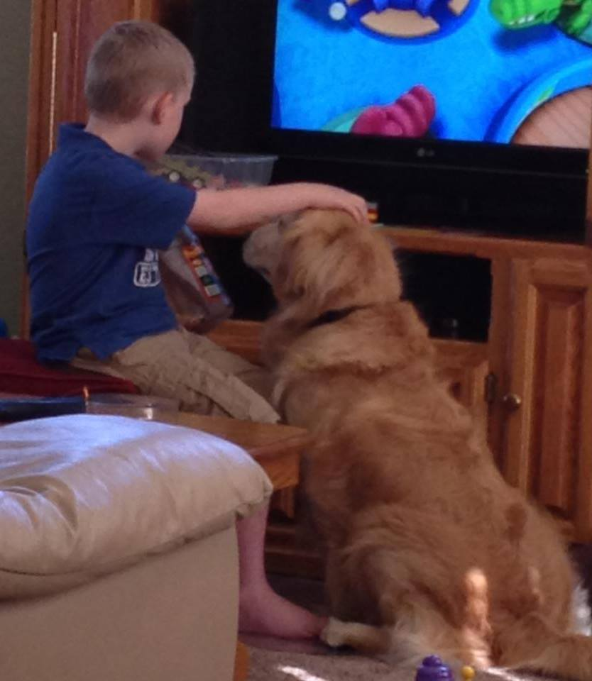 An service dog encourages outward expression from a young boy with autism.